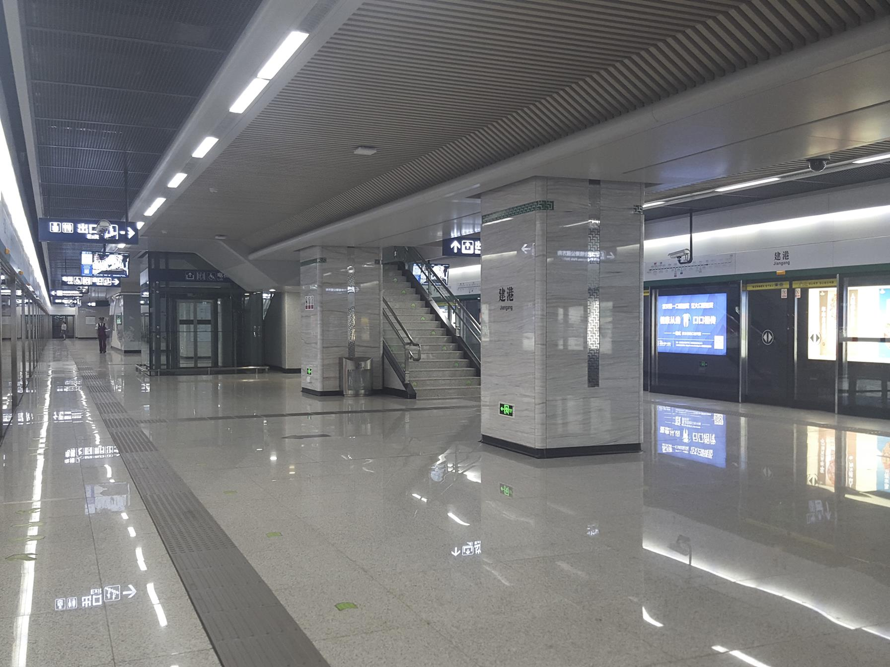 Platform of Jian'gang Station, Wuhan Metro